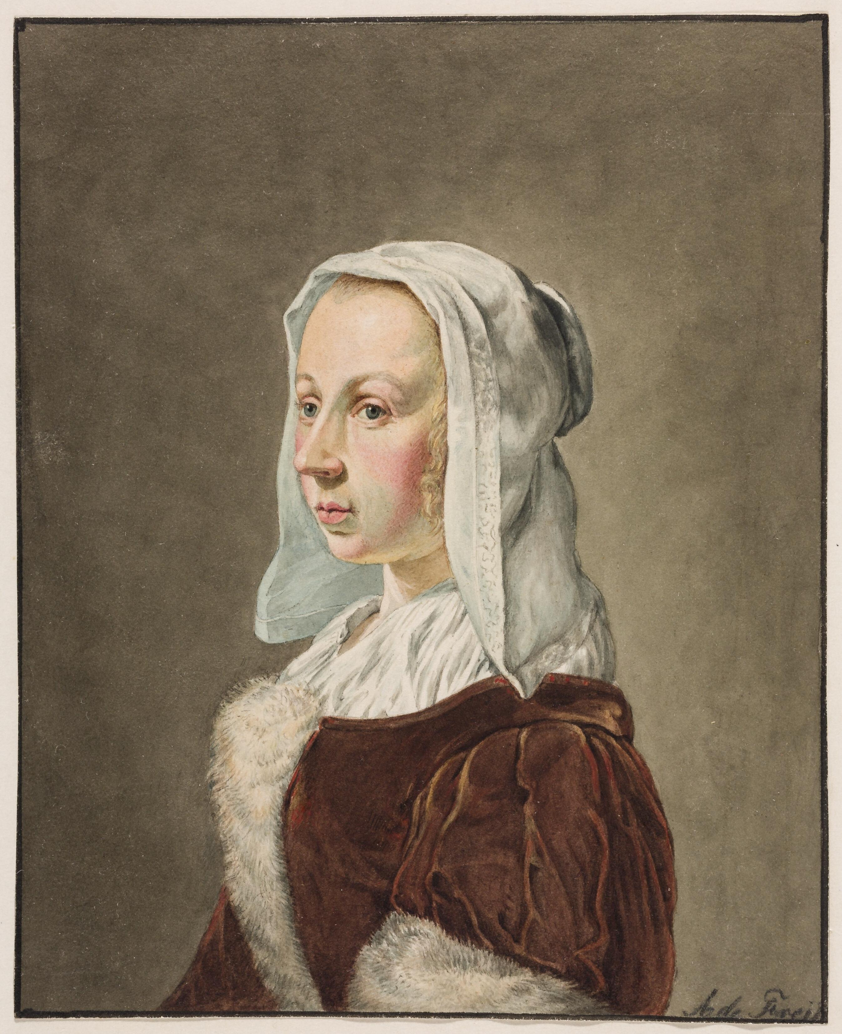 Portrait of Cunera (Kniertje) van der Cock (1630-1681) by Aletta de Freij (after Frans van Mieris)